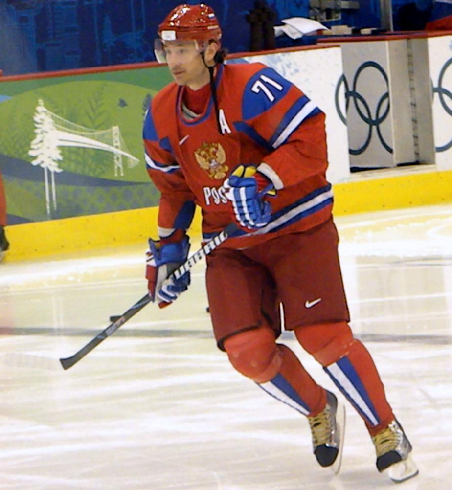 Ilya Kovalchuk of the Russia men's national ice hockey team, warming up before a match against the Latvia men's national ice hockey team in the 2010 Winter Olympics at Canada Hockey Place on February 16, 2010.